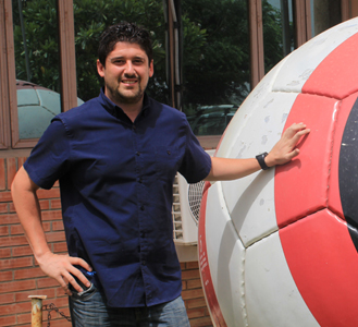 Cmique Itom: Arthur Papas is an Australian football coach who currently coaches the India national under-23 football team and Pailan Arrows in the I-League. He is considered to be a new breed of Australian coaches with a bright future ahead of him.